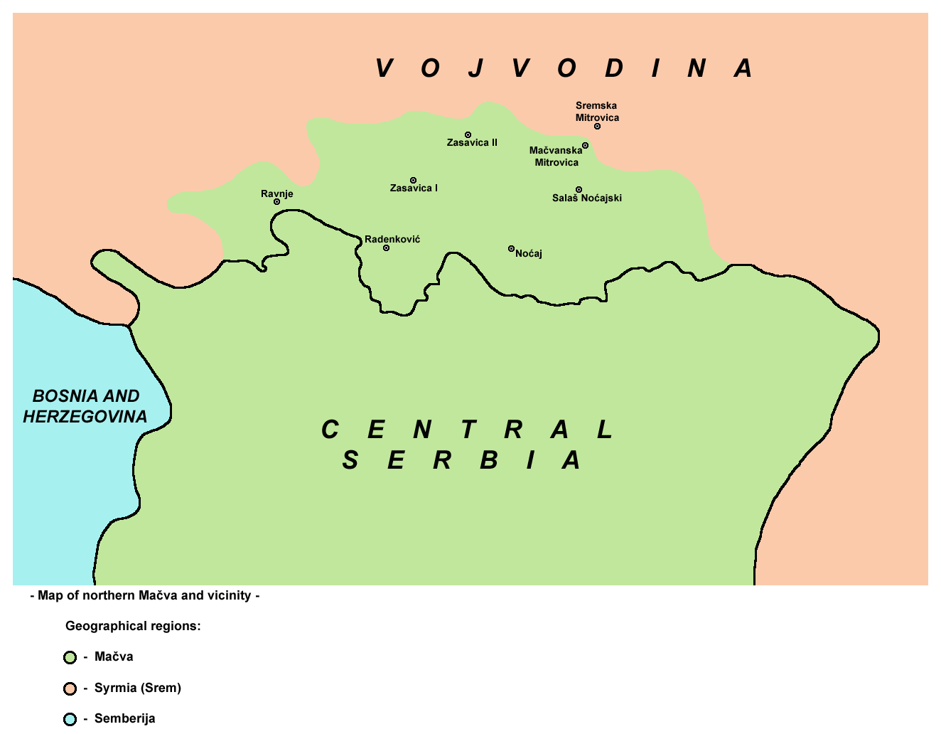 Map of northern Mačva region and vicinity.